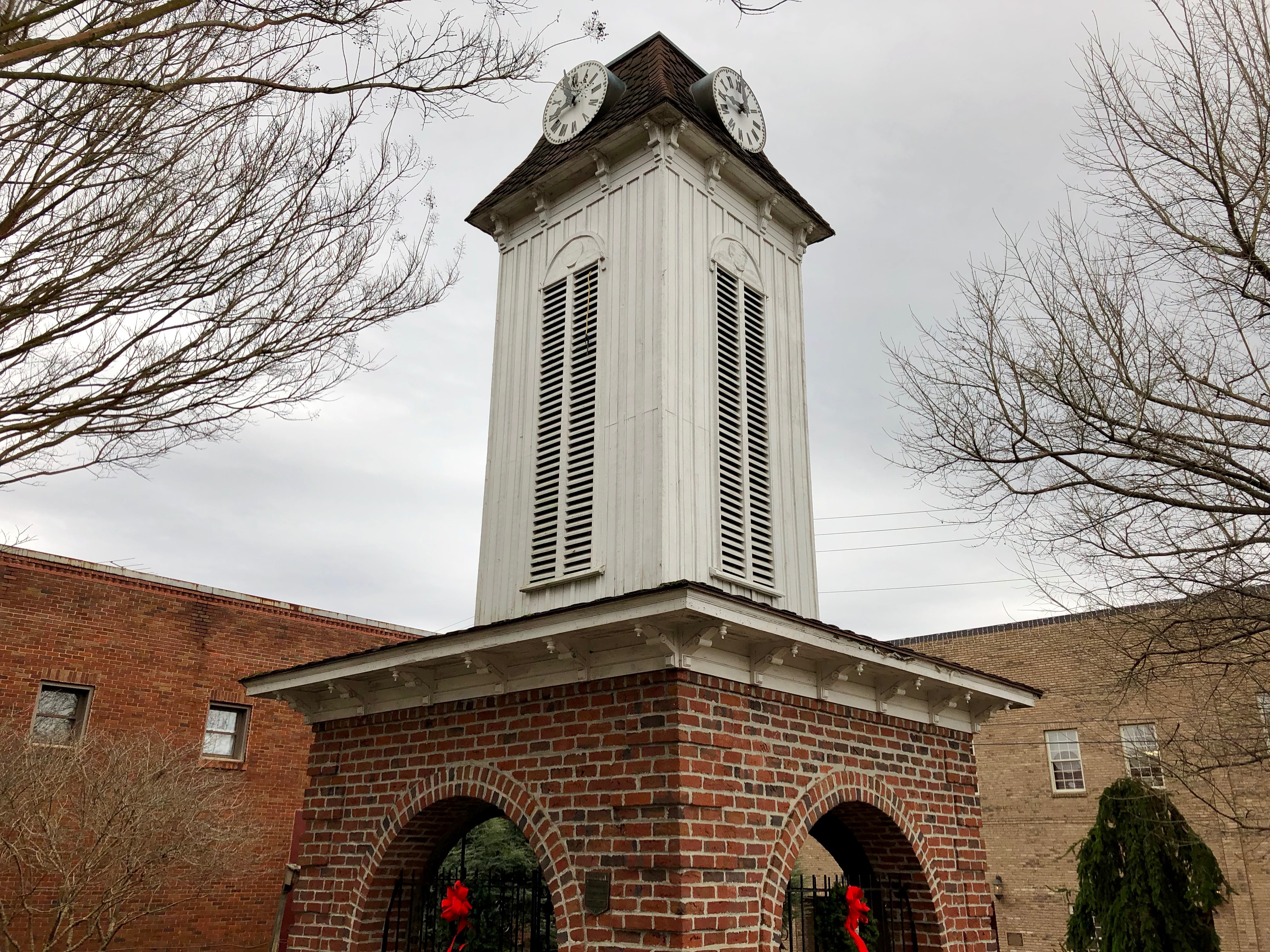 The tower from the 1881 courthouse, which was placed on a pedestal made from bricks of the building on one quadrant of the town square following its demolition in 1972.